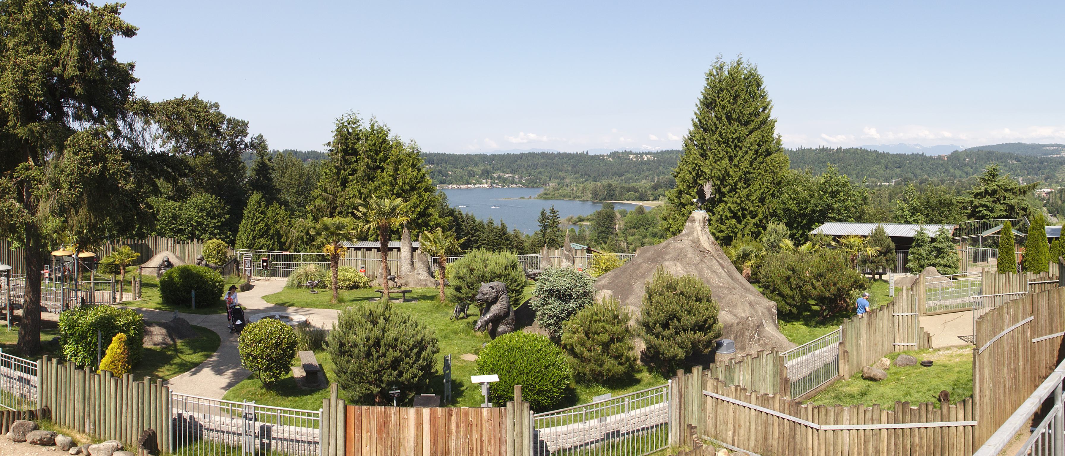 Panoramic view of Lake Sammamish to the northeast from Cougar Mountain Zoo in Issaquah, Washington.